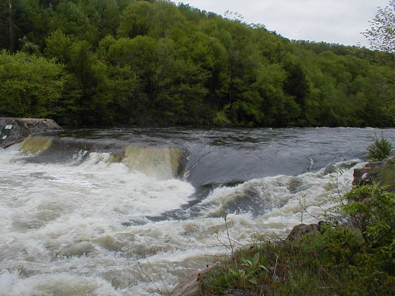 Farmington River flooding over the broken dam in the Tariffville Gorge on the town line of East Granby and Tariffville